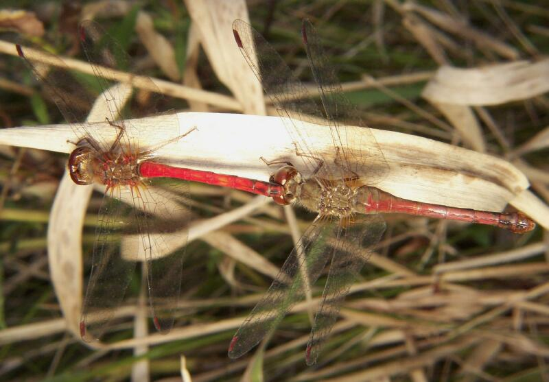 jpeg image, mated pair of adult cherry-faced meadowhawk dragonflies, Sympetrum internum. Male is on the left.